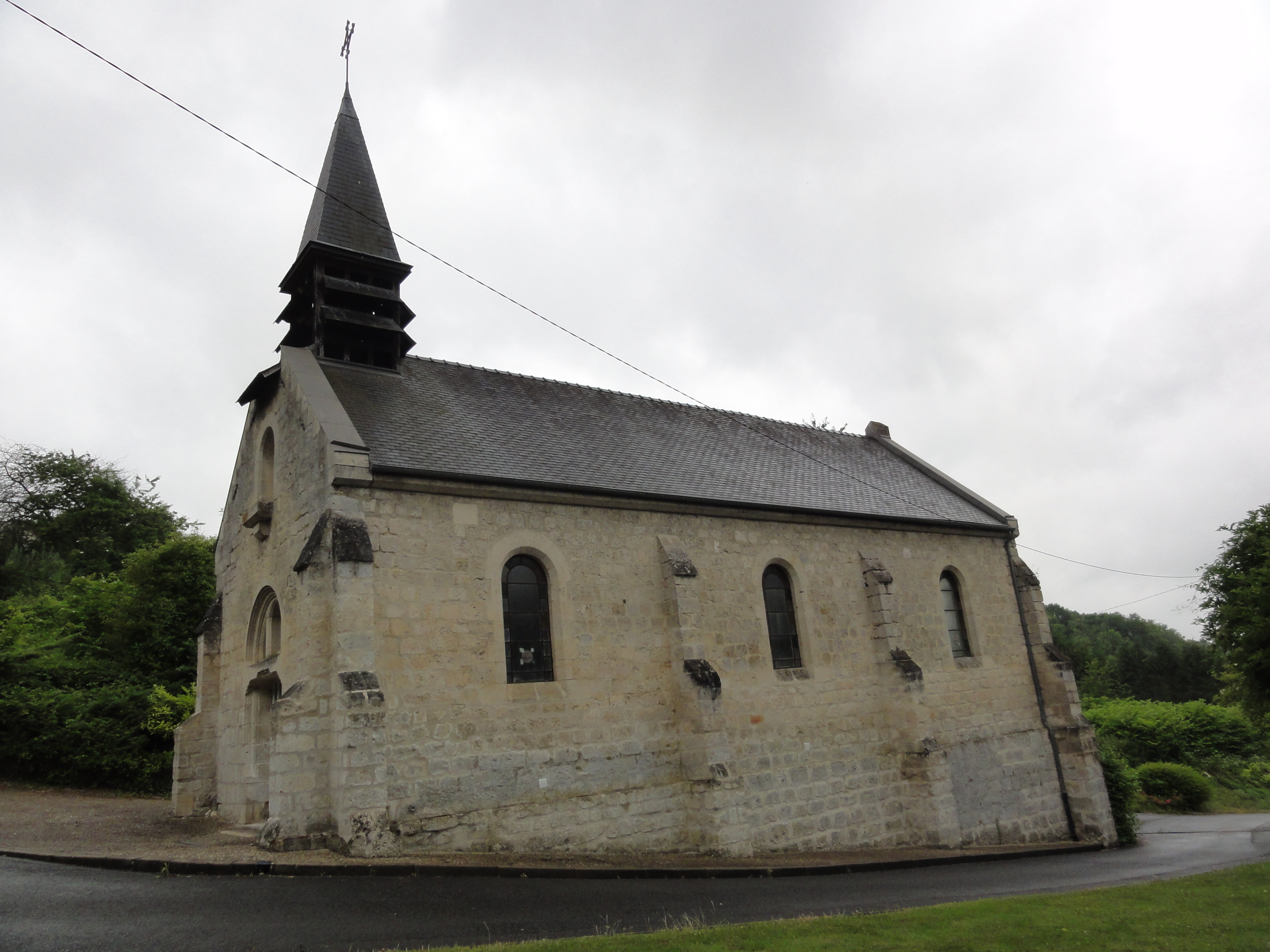 Leury (Aisne) église Notre-Dame-et-Saint- Nicodème